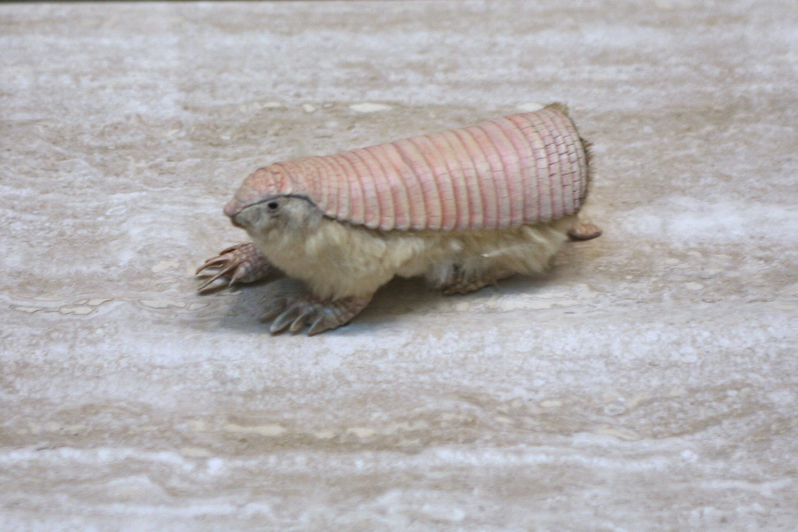 Pink fairy armadillos (or pichiciegos) are found in the warm sandy plains of Argentina. These armadillos prefer to burrow in very dry soil. They leave their burrows if it is moistened by rainfall. These animals often burrow near anthills, so that they can be close to their food source. The pink fairy armadillo generally lives by itself. The animals stay in their burrrows during the day and feed at night. They are remarkable diggers. The pink fairy armadillo is the smallest member of the armadillo family, measuring only about five to six inches in length. It is also the only armadillo in which the dorsal shell is almost separate from the body. Baby armadillos resemble their parents, but their shells do not completely harden until they are full grown.